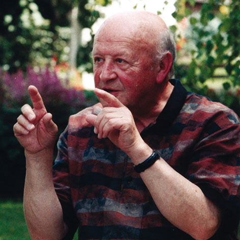 Emil Waldmann (1925-2012), german painter